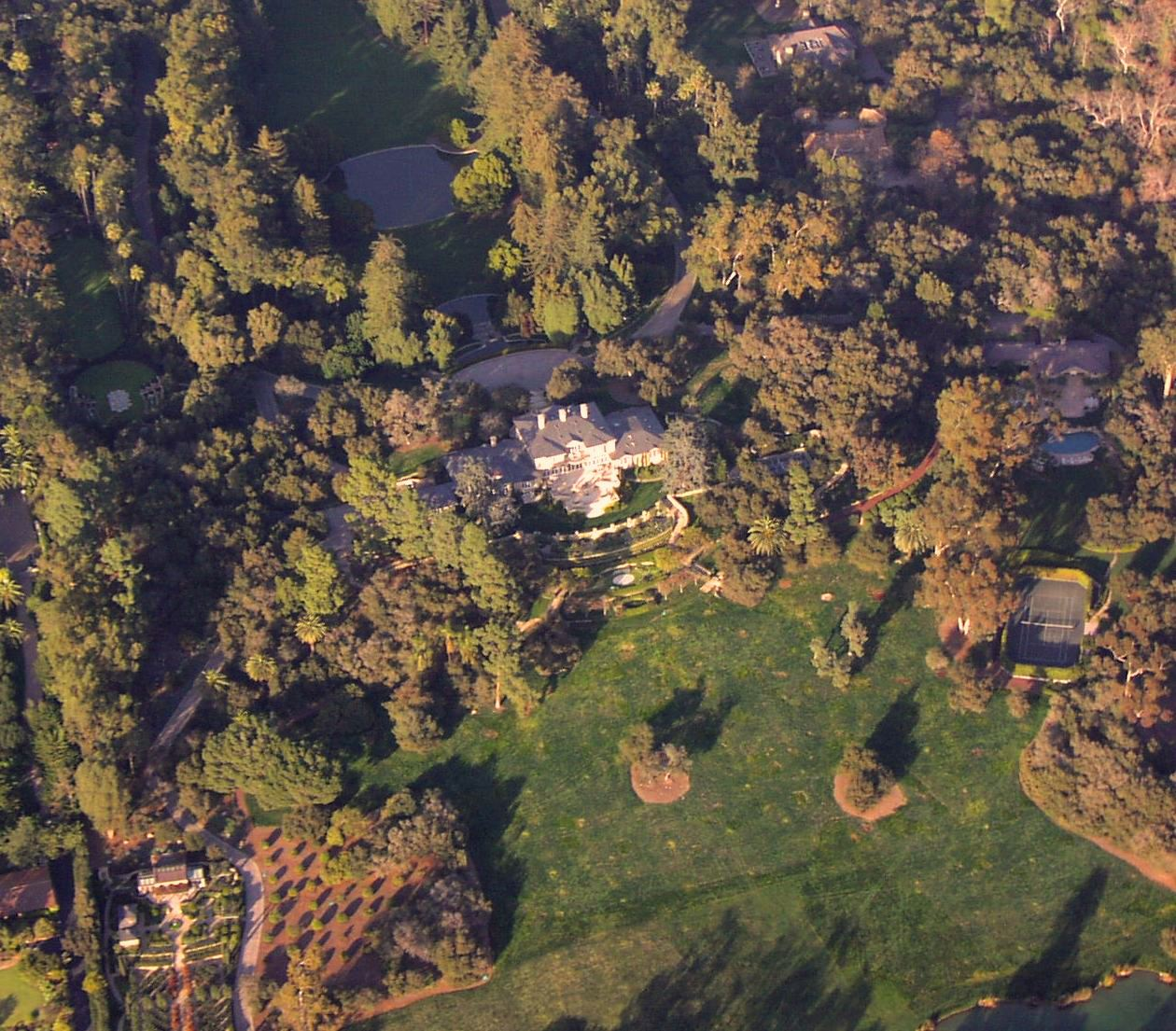 Oprah's estate, from the window of a small plane, located in Montecito, California. View from SSW. January 6, 2009; own work